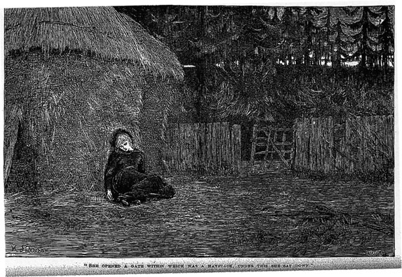 Original illustration from the first, serialised edition of Far from the Madding Crowd.